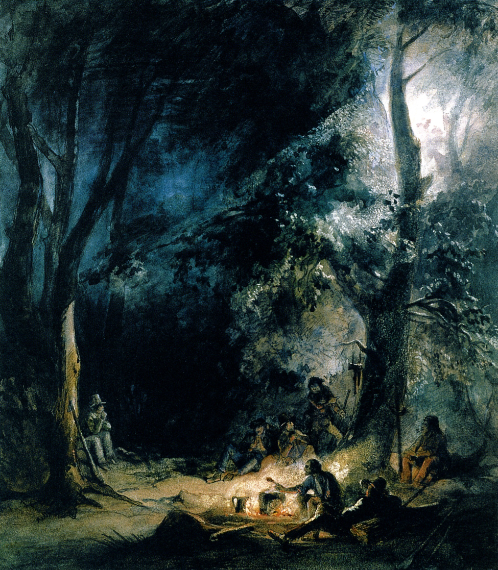 The party in which Karl Bodmer was traveling stopped to camp along the Missouri River in North Dakota on November third of 1833. Watercolor